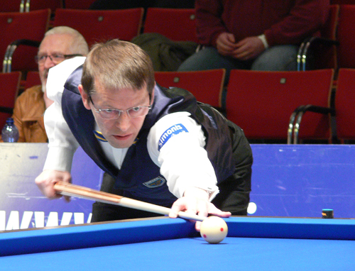 Swedish carom billiards player